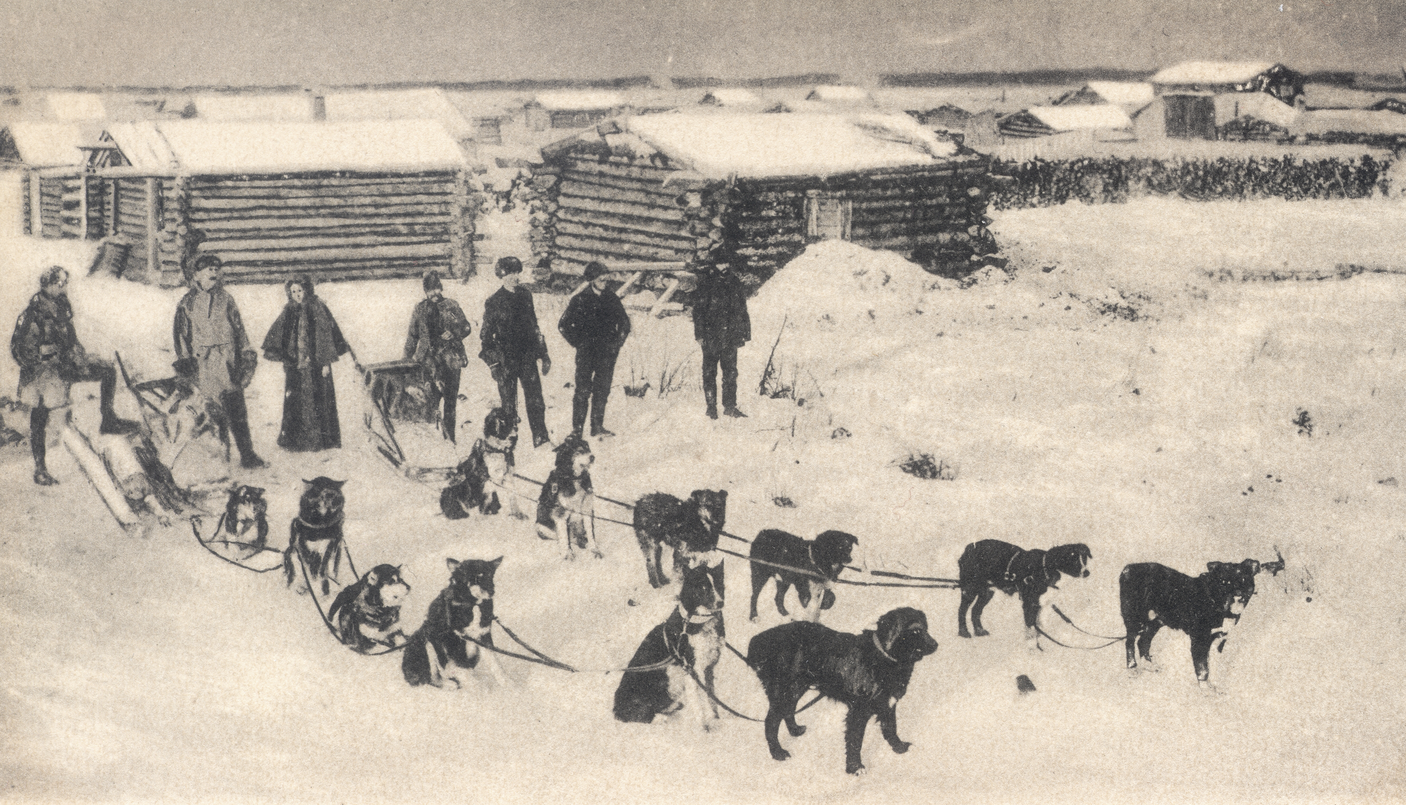 Title: Photograph of postcard with mail team leaving Circle City for Ft. Gibson, Alaska Date: c. 1900 Object number: A.2010-3 Medium: postcard stock; photo-emulsion Dimensions (Unframed): 3 1/2" x 5 1/2" Description: Photograph from postcard was published by the Lowman & Hanford Stationery and Printing Company of Seattle, Washington. The postcard, #2063 in this particular series, shows contract mail carriers preparing their dogsled team to carry mail through the snow from Circle City to Ft. Gibson, in the Alaskan Territory. Photographer: Unknown Place: Circle City, AK Collection Description: Transportation/Animal Powered Credit line: National Postal Museum, Curatorial Photographic Collection Photographer: Unknown Repository: National Postal Museum, Curatorial Photographic Collection View more collections from the Smithsonian Institution.